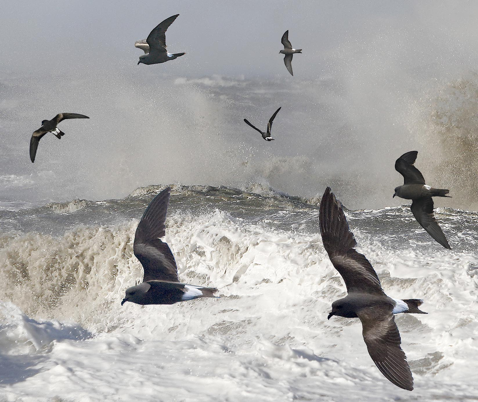 Leach's Storm Petrel from the Crossley ID Guide Britain and Ireland